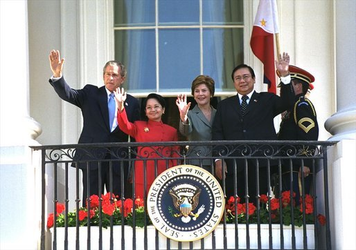 President Bush, Mrs. Bush, President Arroyo and Mr. Arroyo wave from the Truman Balcony. White House